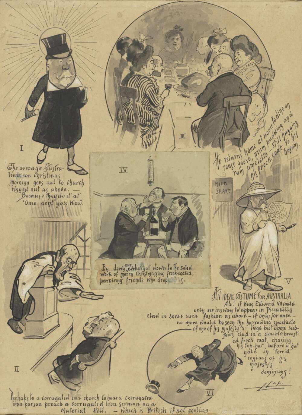 Description [ca. 1900] 1 drawing : brush and ink ; 38 x 28 cm. Notes Title from inscription u.r. Six drawings on a sheet, numbered I to VI with various inscriptions. (ANL)R5315. Subjects Christmas -- Australia -- Caricatures and cartoons. | Caricatures and cartoons -- Australia. | Costume -- Australia. | Picture -- Cartoon.